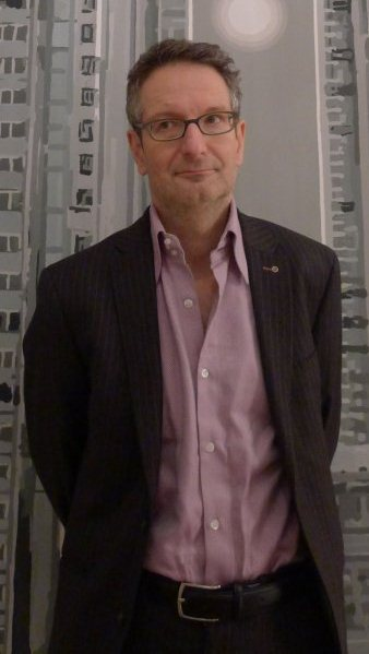 Thomas Haemmerli, photographed at his home in Zurich by Ana Roldán, 2012